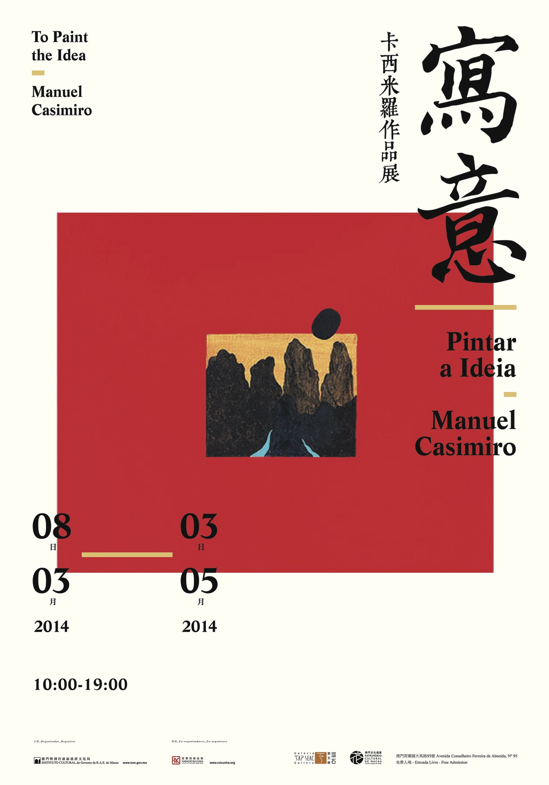 Manuel Casimiro - To paint the Idea (2014)